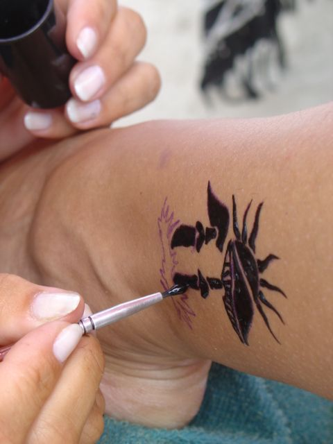 Artistic tattoo on lower leg